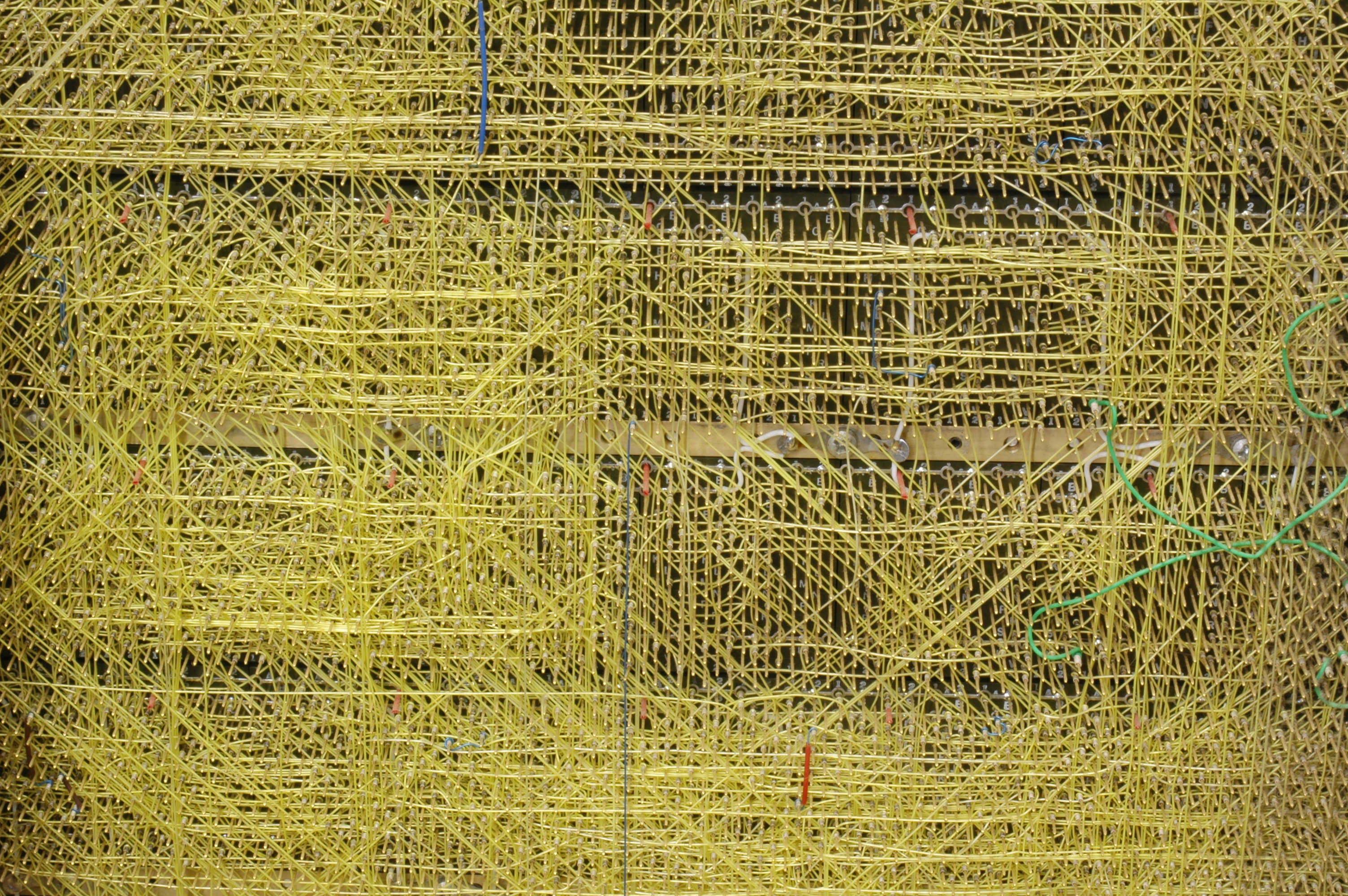 PDP-8I wire-wrapped backplane. From the collection of the RCS/RI.